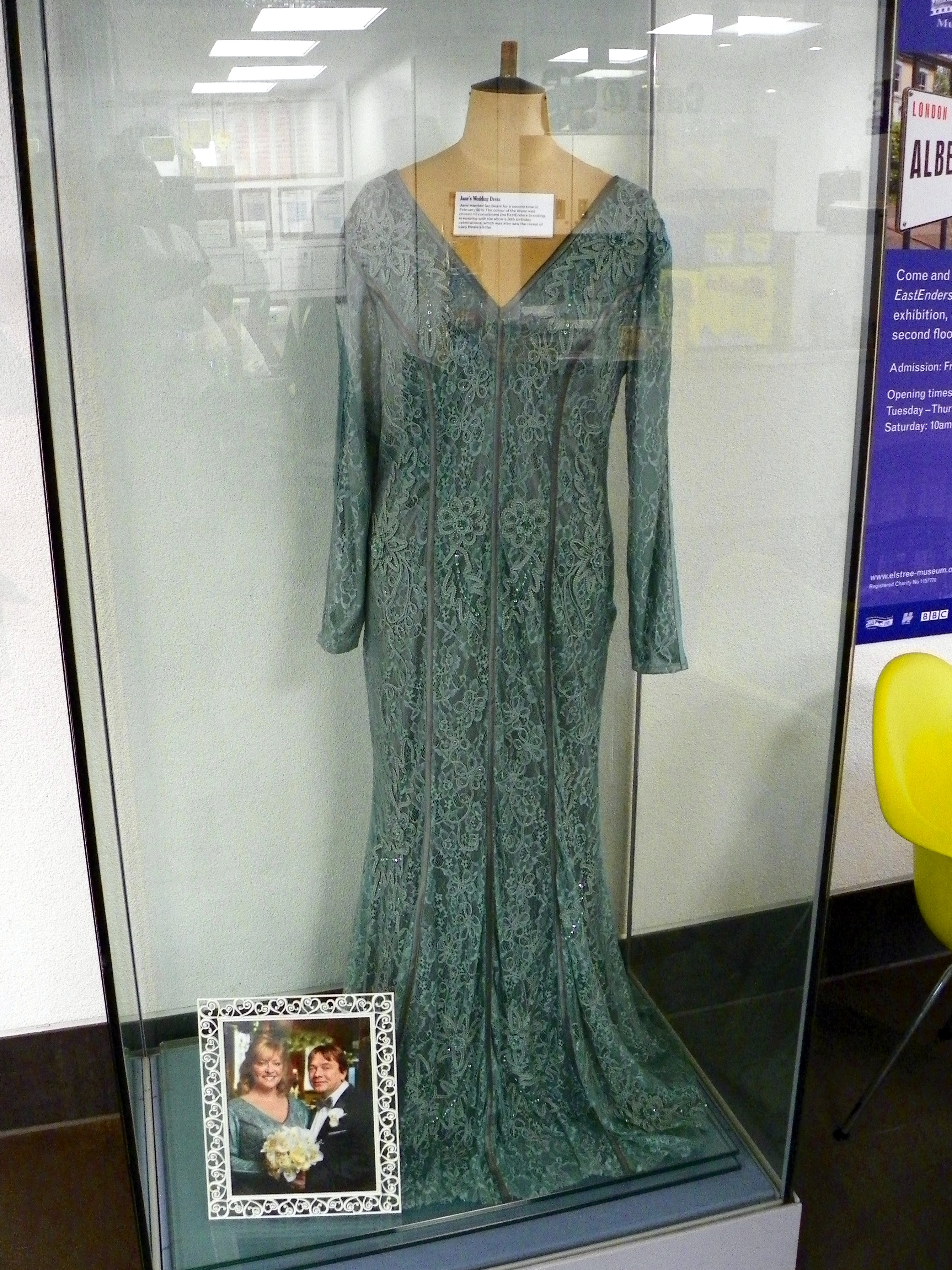 The wedding dress worn by actress Laurie Brett, in character as Jane Beale, for her second wedding to Ian Beale, played by Adam Woodyatt. The dress was worn during "EastEnders Live Week" in February 2015, and was designed to match the colours of the show's opening credits. Here, it is on display at the Elstree and Borehamwood Museum in Hertfordshire, as part of their "EastEnders at 30: In Our Manor" exhibition.